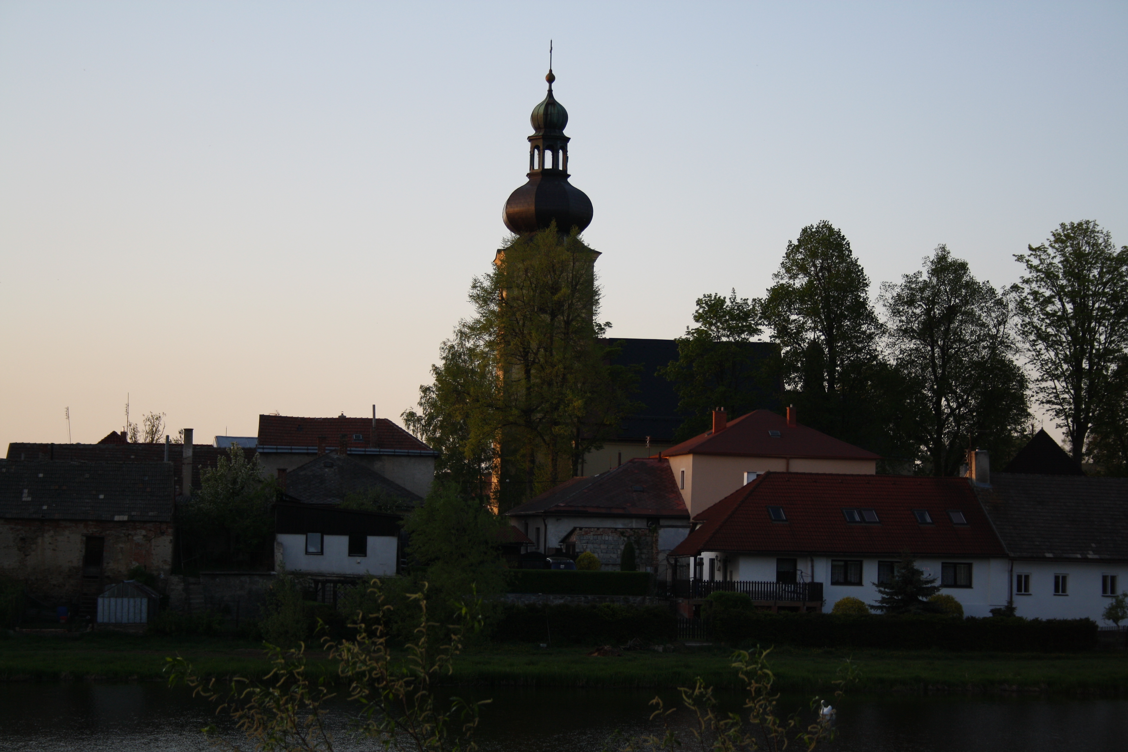 Stonařov church and skyview.